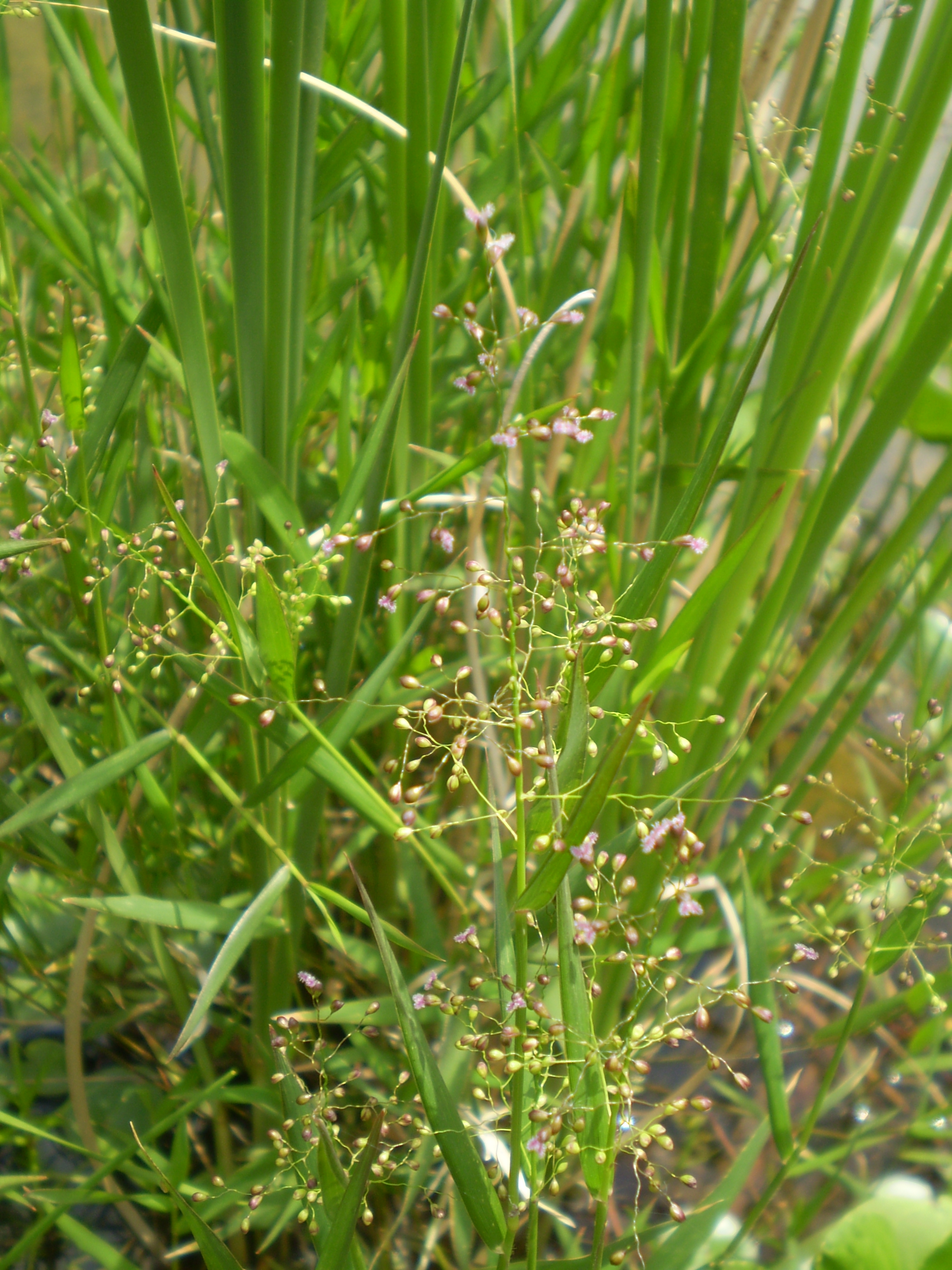 Isachne globosa (Swamp millet)